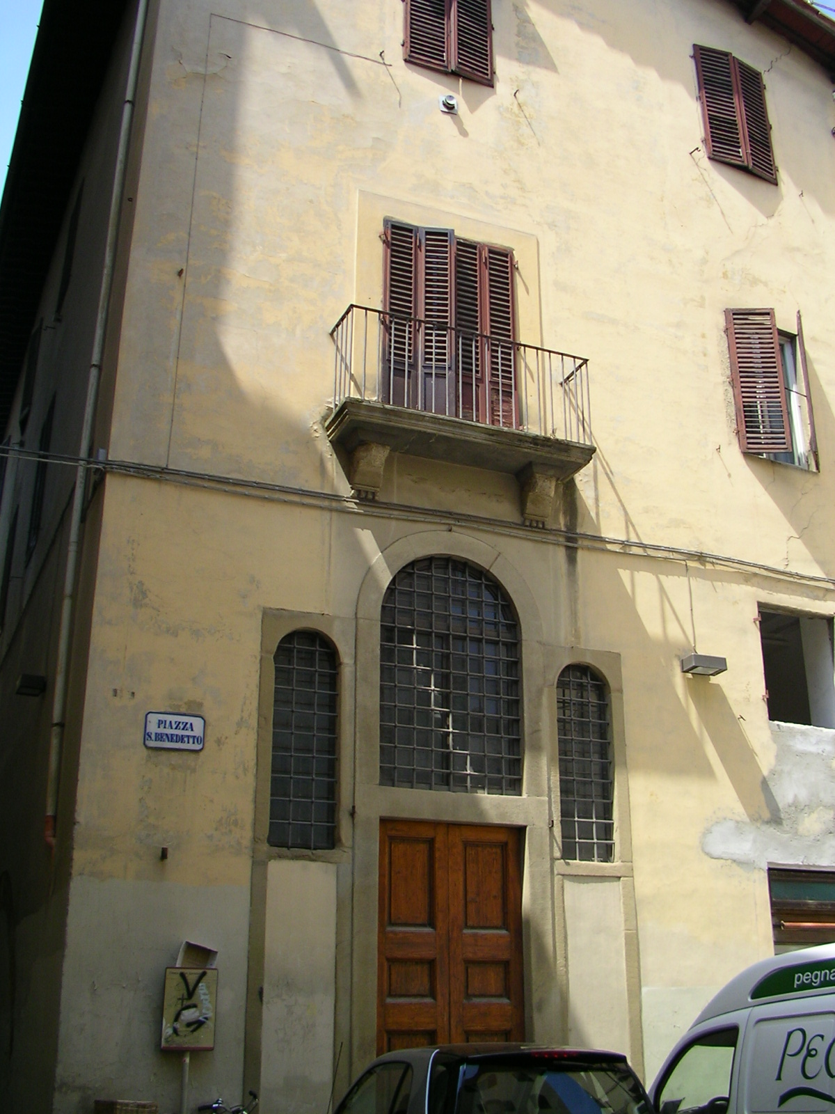 San benedetto church front view in Florence, Italy